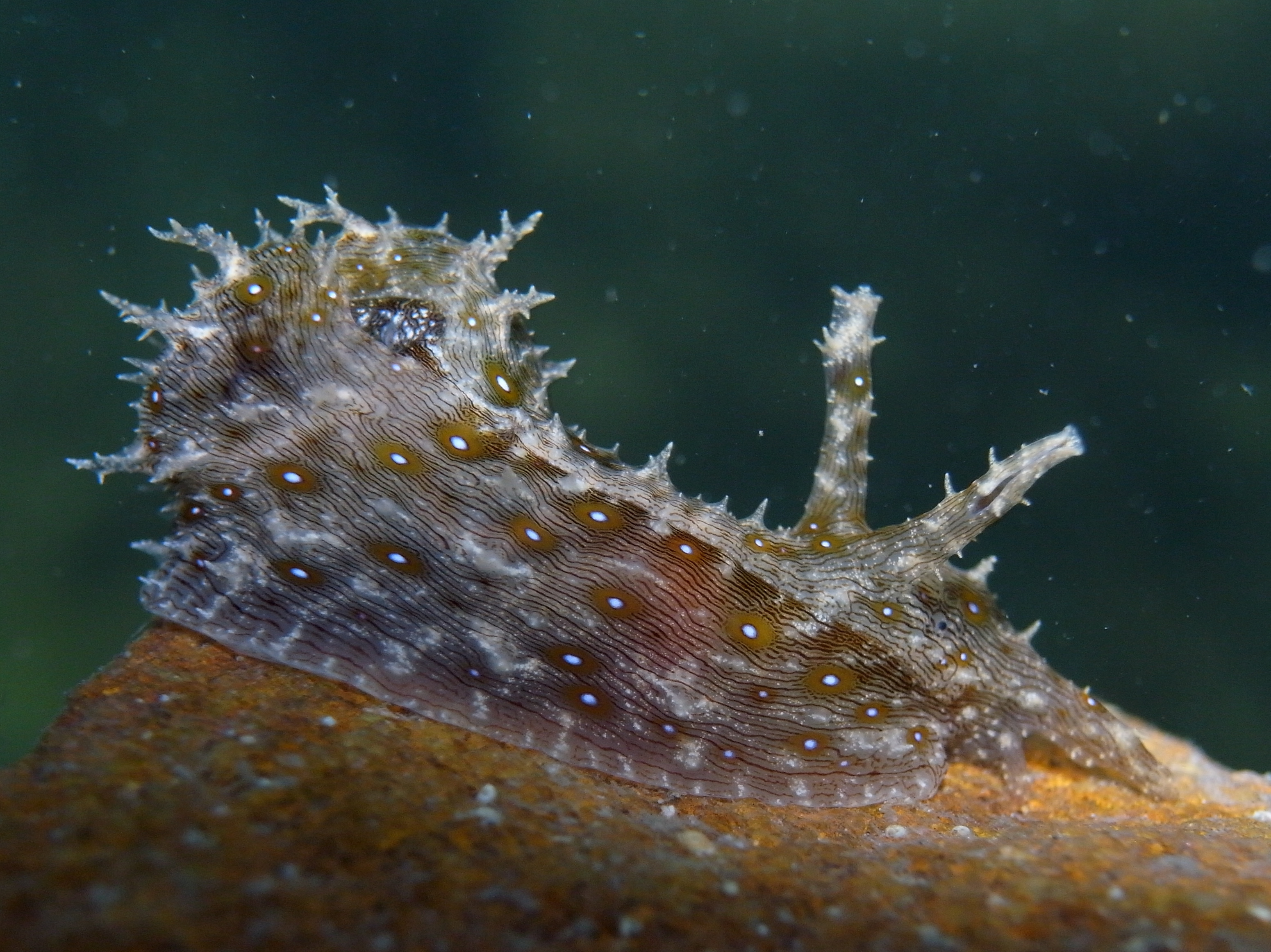 Stylocheilus striatus in Clovelly, Sydney, Australia.